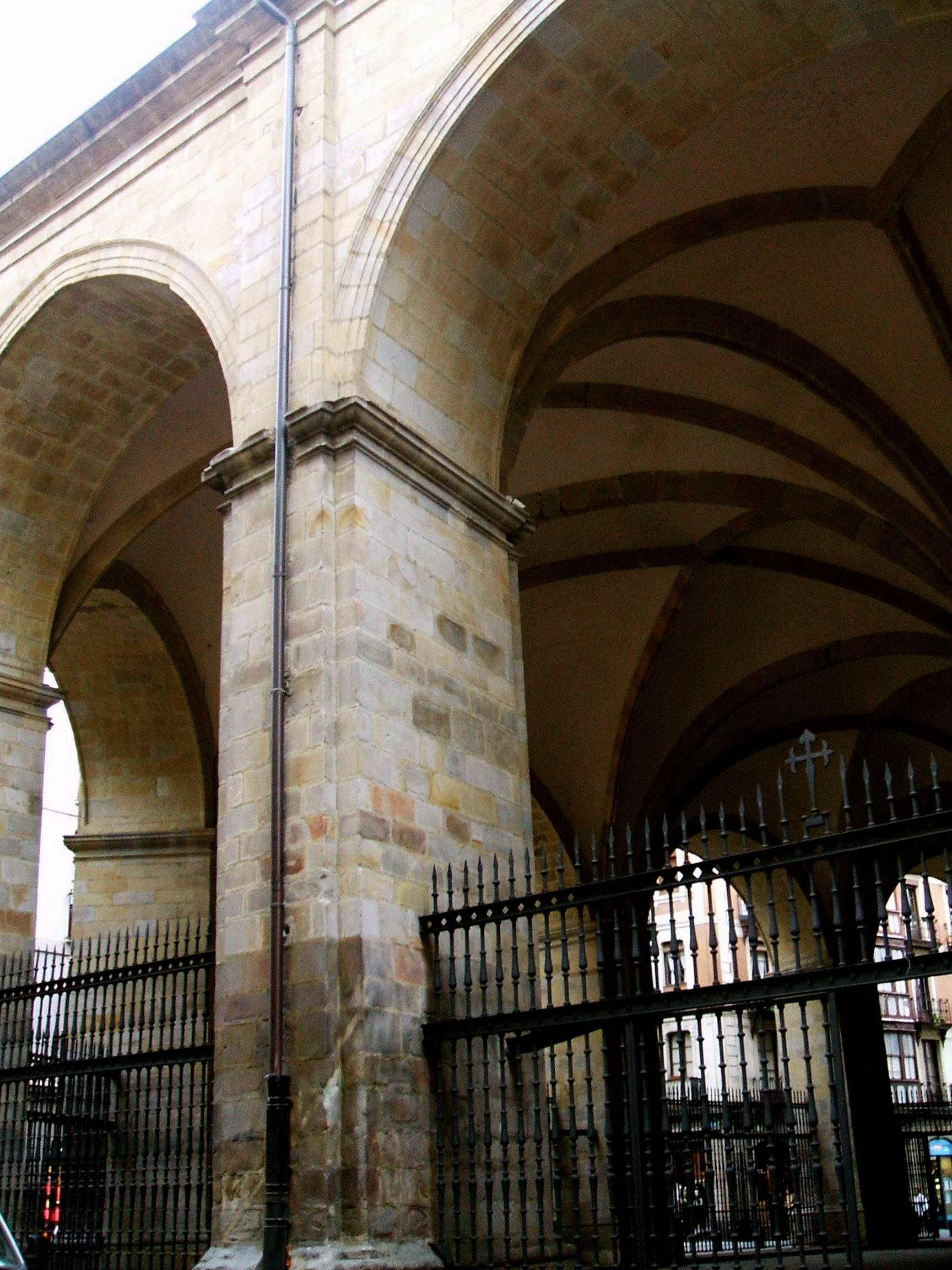 Pórtico de la Catedral de Santiago de Bilbao, País Vasco, España